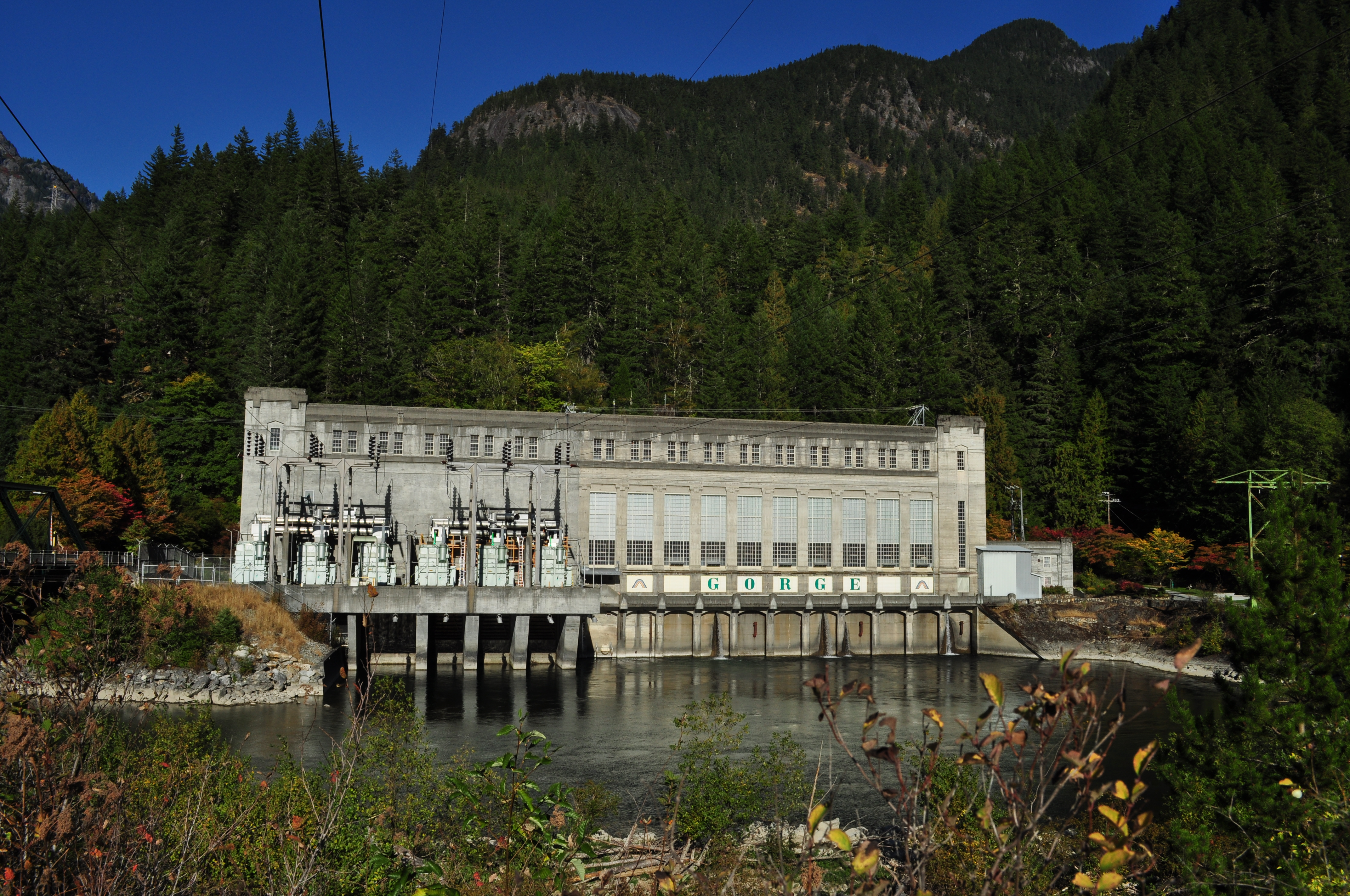 Gorge Powerhouse, Newhalem, Washington, USA.